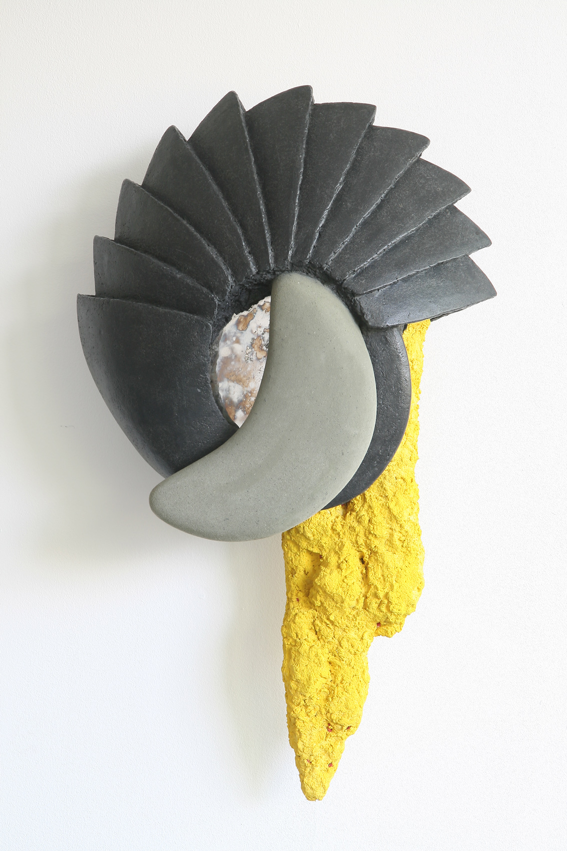 Kirsten Krüger: Nighthawk (2015), papier-mâché, metal, 80 x 47 x 22 cm